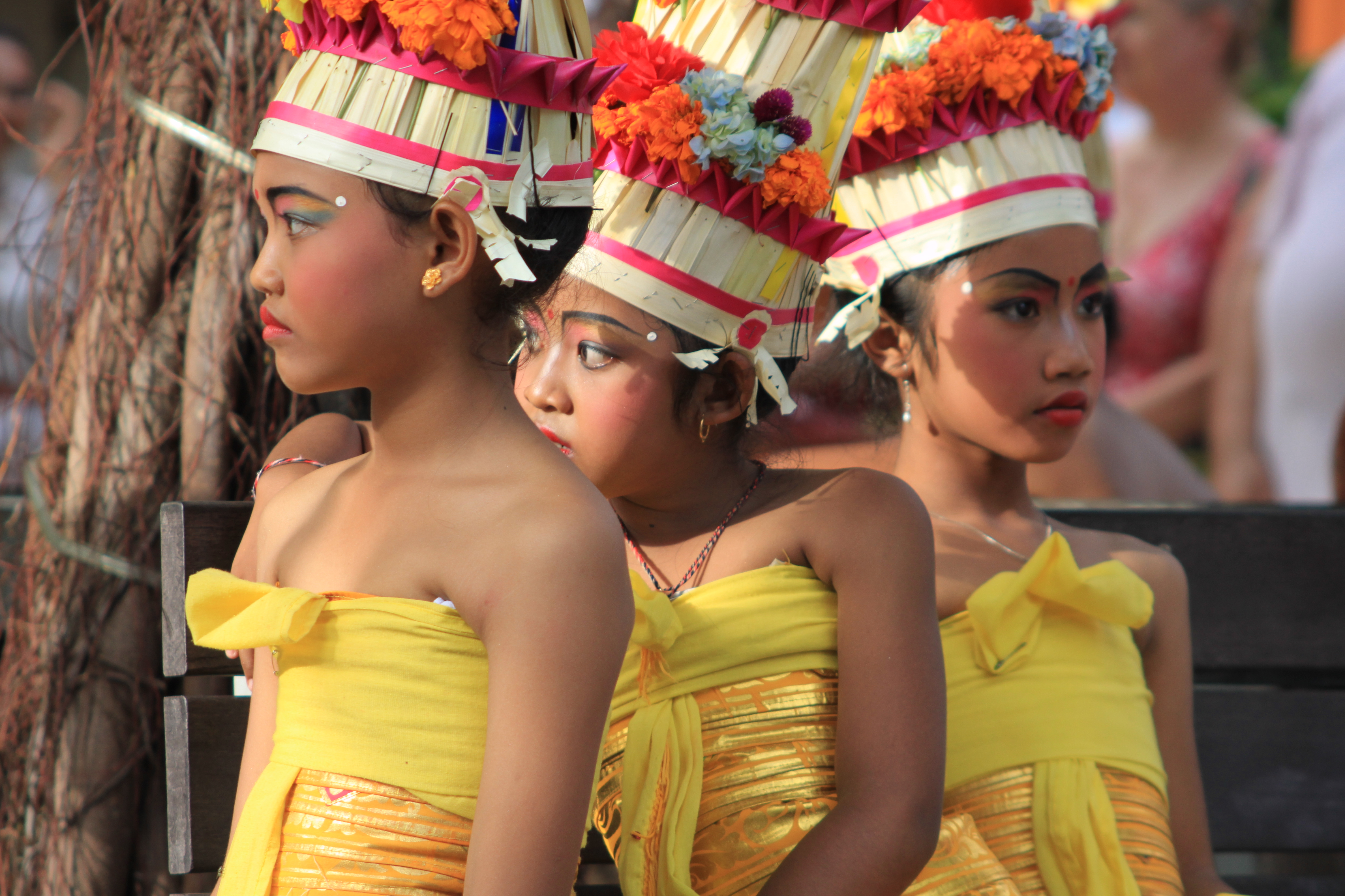 Young girls in Balinese festival, Bali, Indonesia.